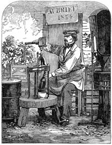 Corking a Champagne Bottle: 1855 engraving of the manual method From The Lordprice Collection This picture is the copyright of the Lordprice Collection and is reproduced on Wikipedia with their permission Source URL